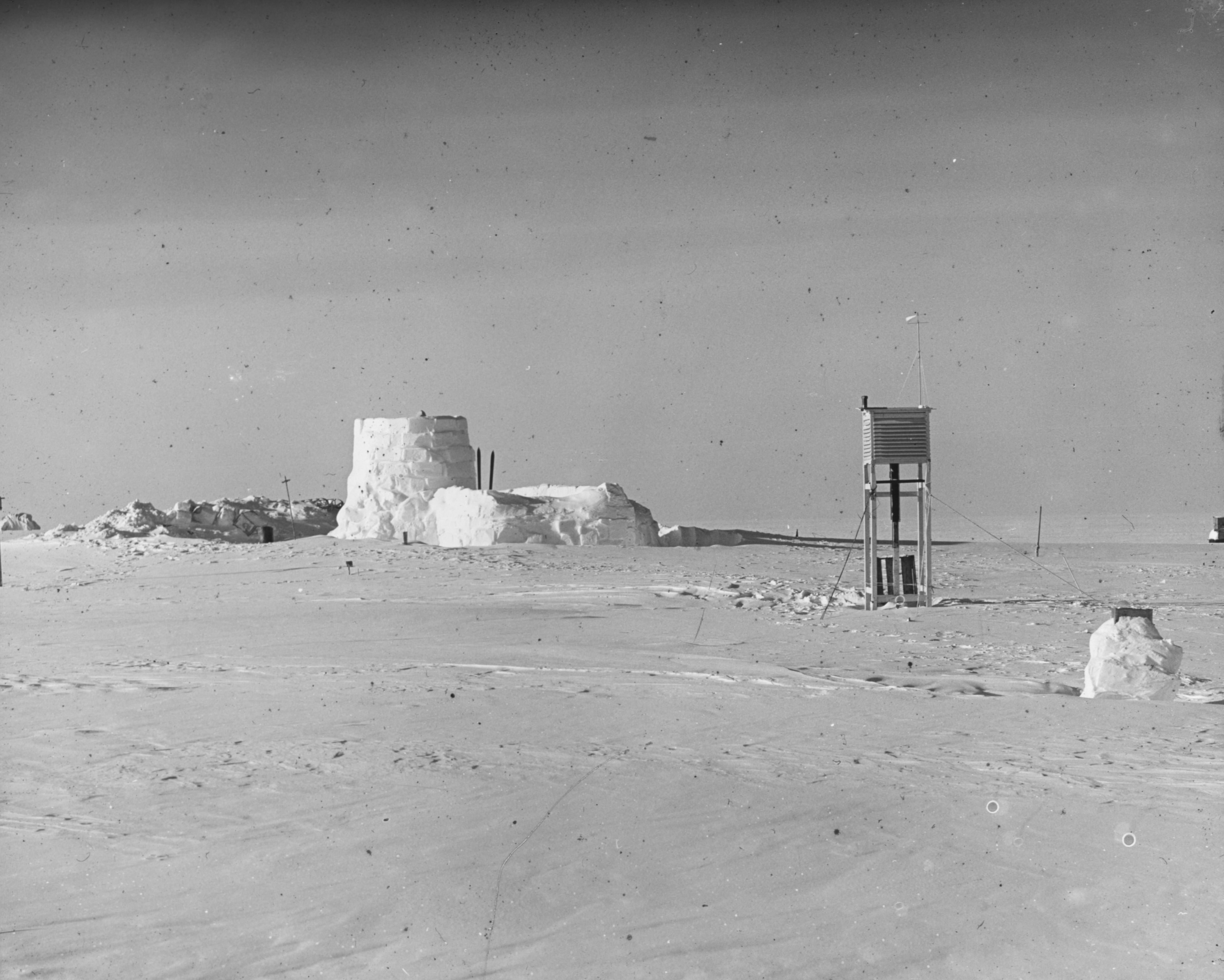 Photographs of the German expedition and overwintering in Greenland in 1930/31